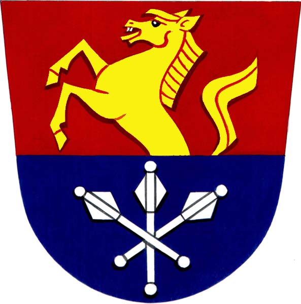 Coat of arms of Vysoké Věžnice